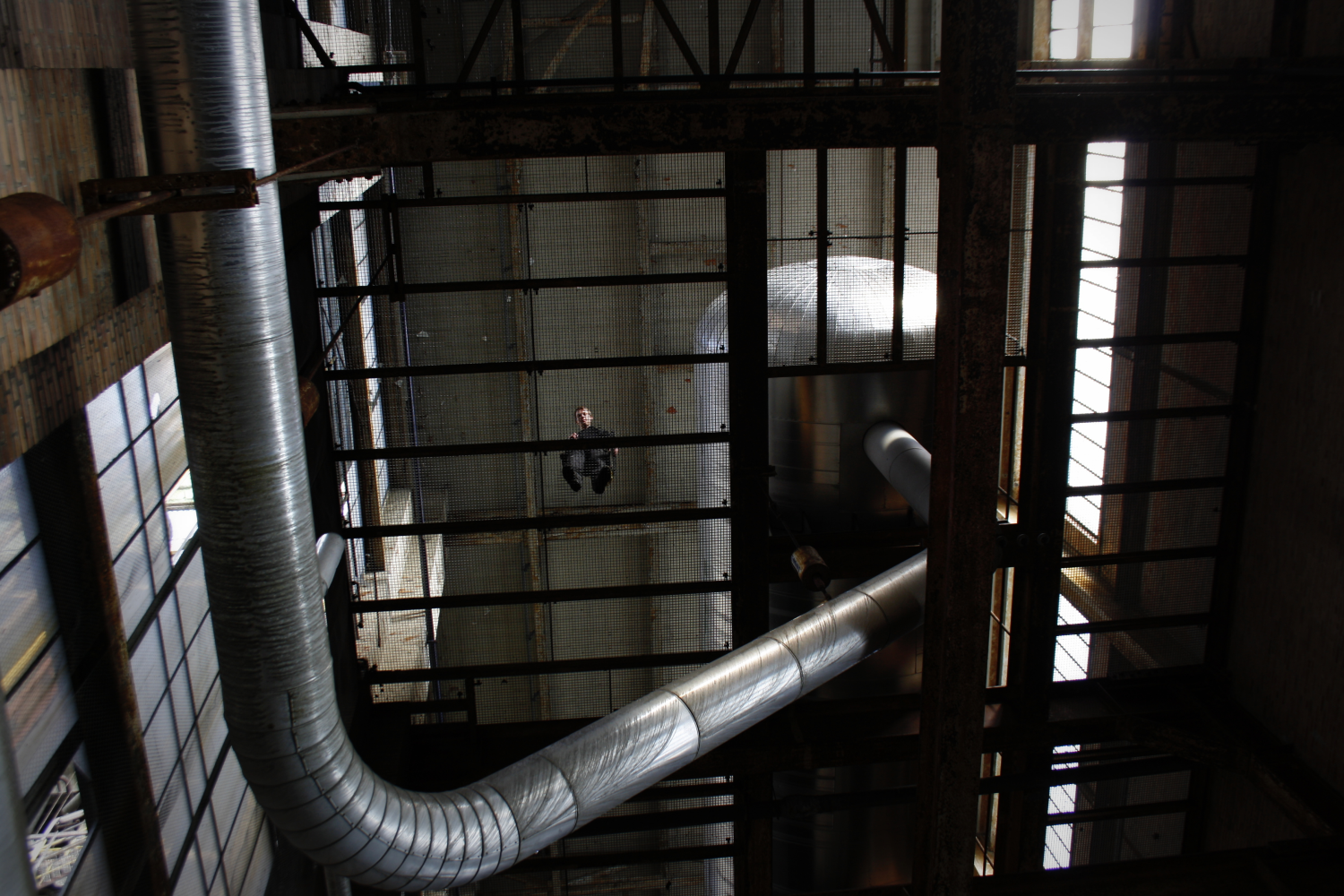 Guy at the 2nd floor in an abandoned powerstation